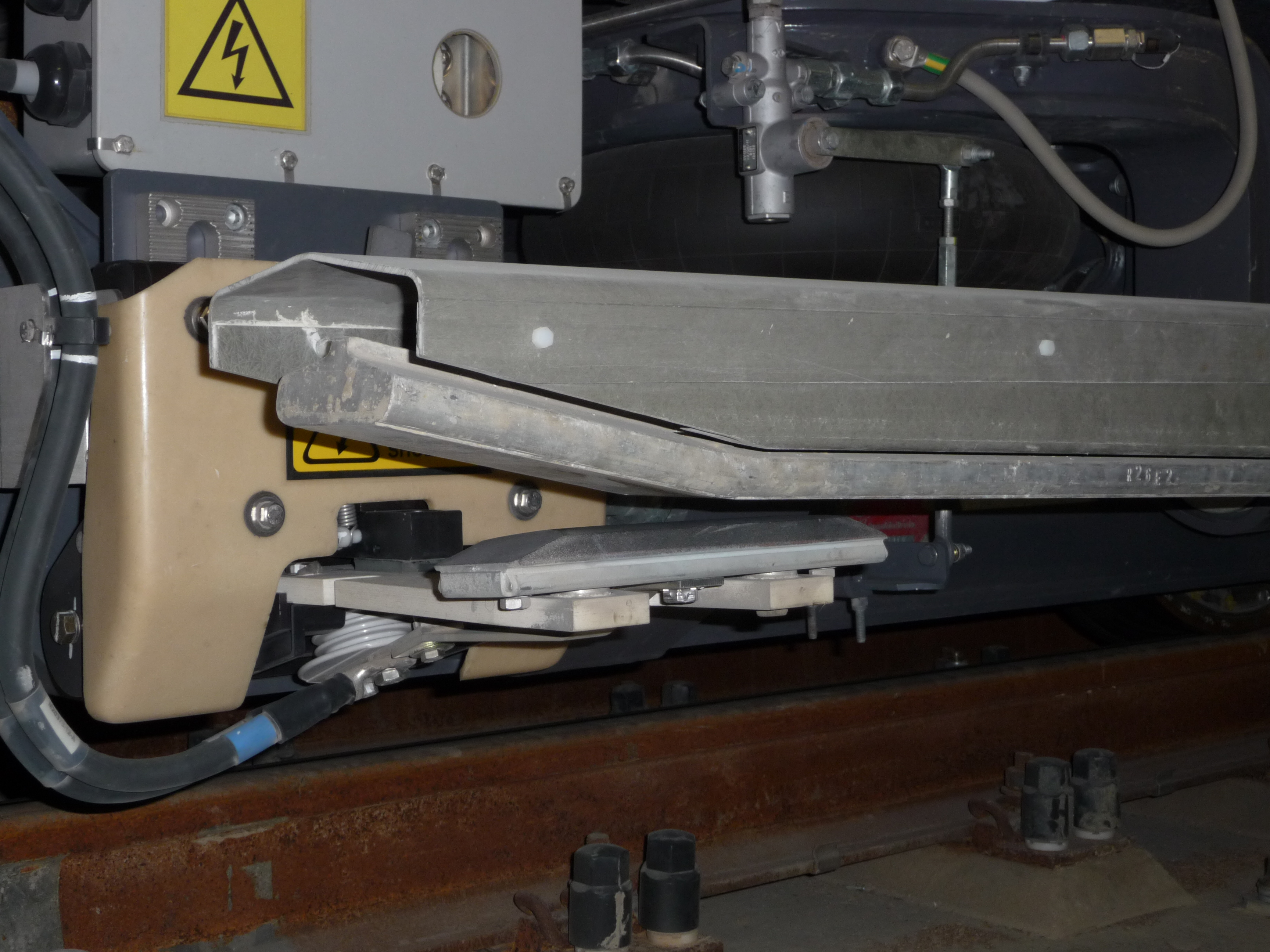 Current collector shoe approching a ramp. Milan metro - MM5, Italy.